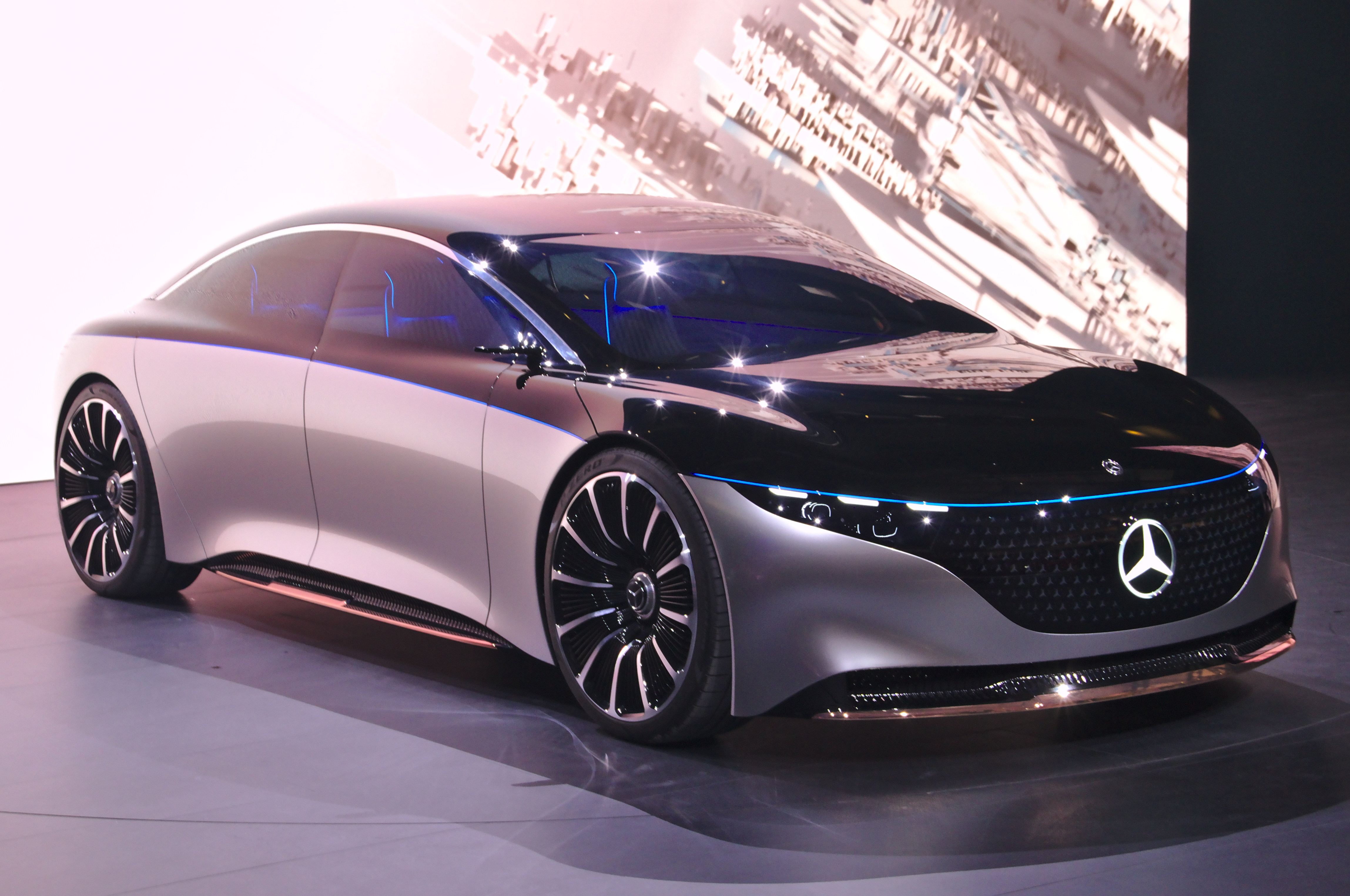 Mercedes-Benz_Vision_EQS at IAA 2019